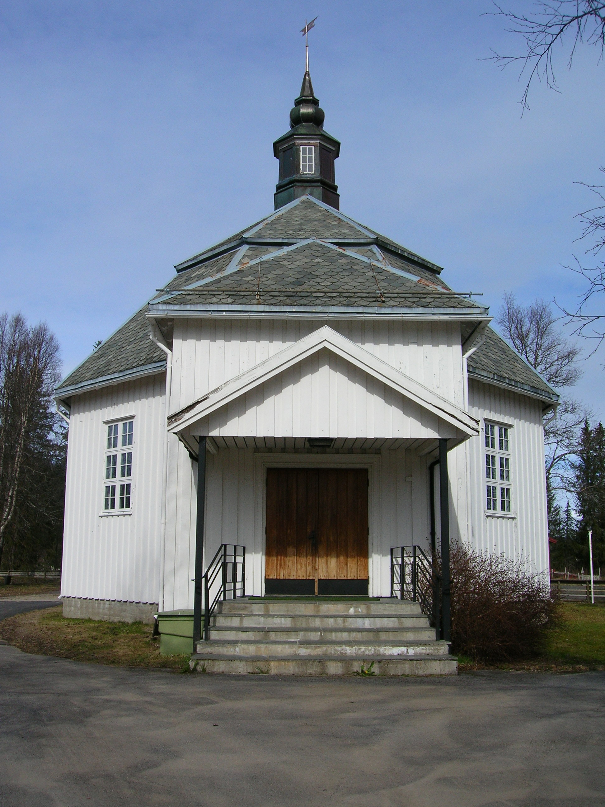 Røssvoll church, Rana municipality, Nordland, Norway, Photo May 10, 2007 with a Nikon Coolpix 5600 5,1 Megapixel camera.